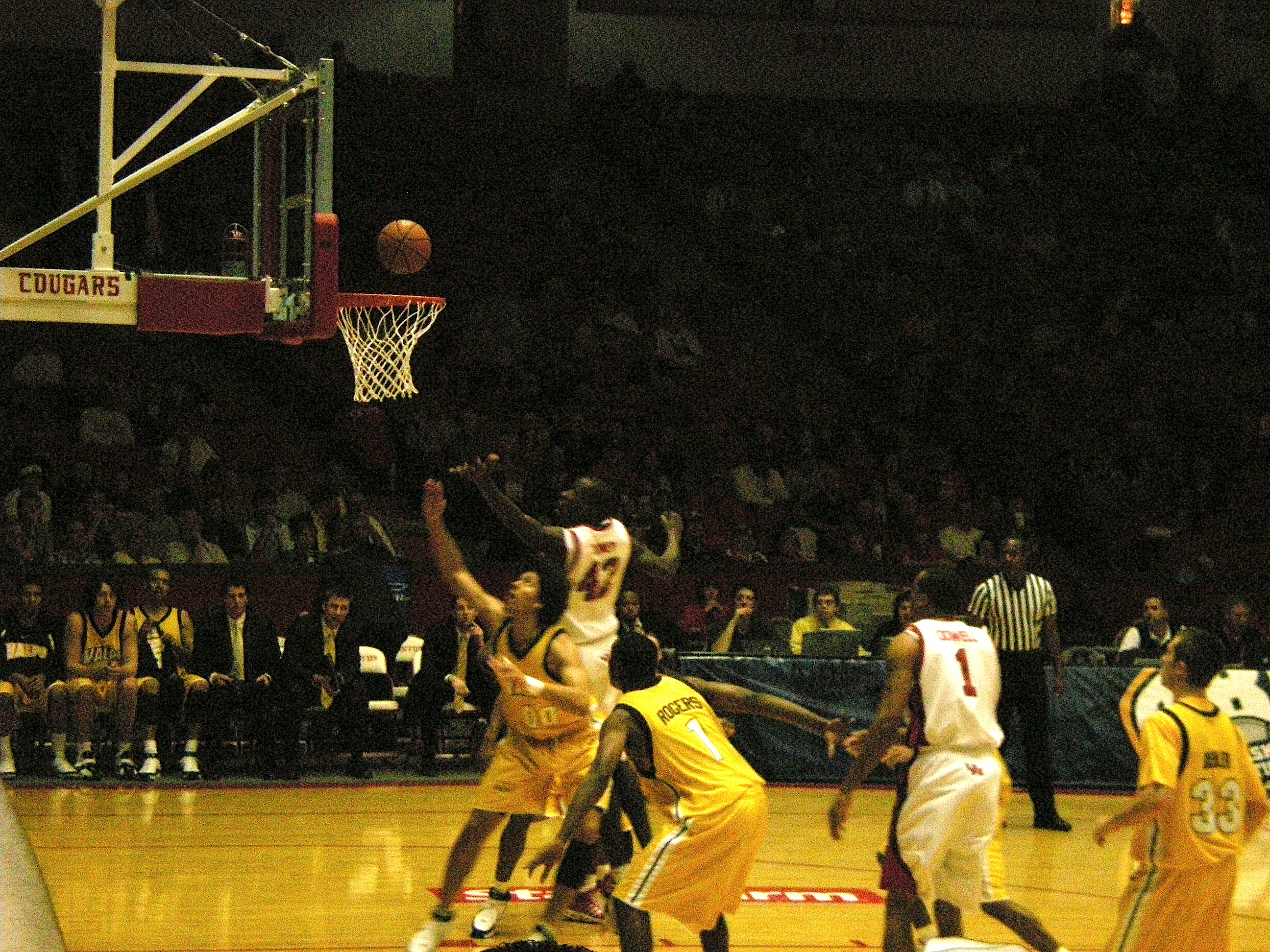 The Houston Cougars men's basketball team versus the Valparaiso Crusaders in the quarterfinals of the inaugural 2008 College Basketball Invitational at Hofheinz Pavilion.